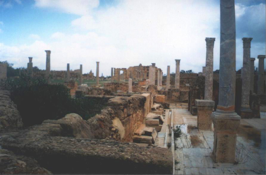 Ruins of Leptis Magna, Libya